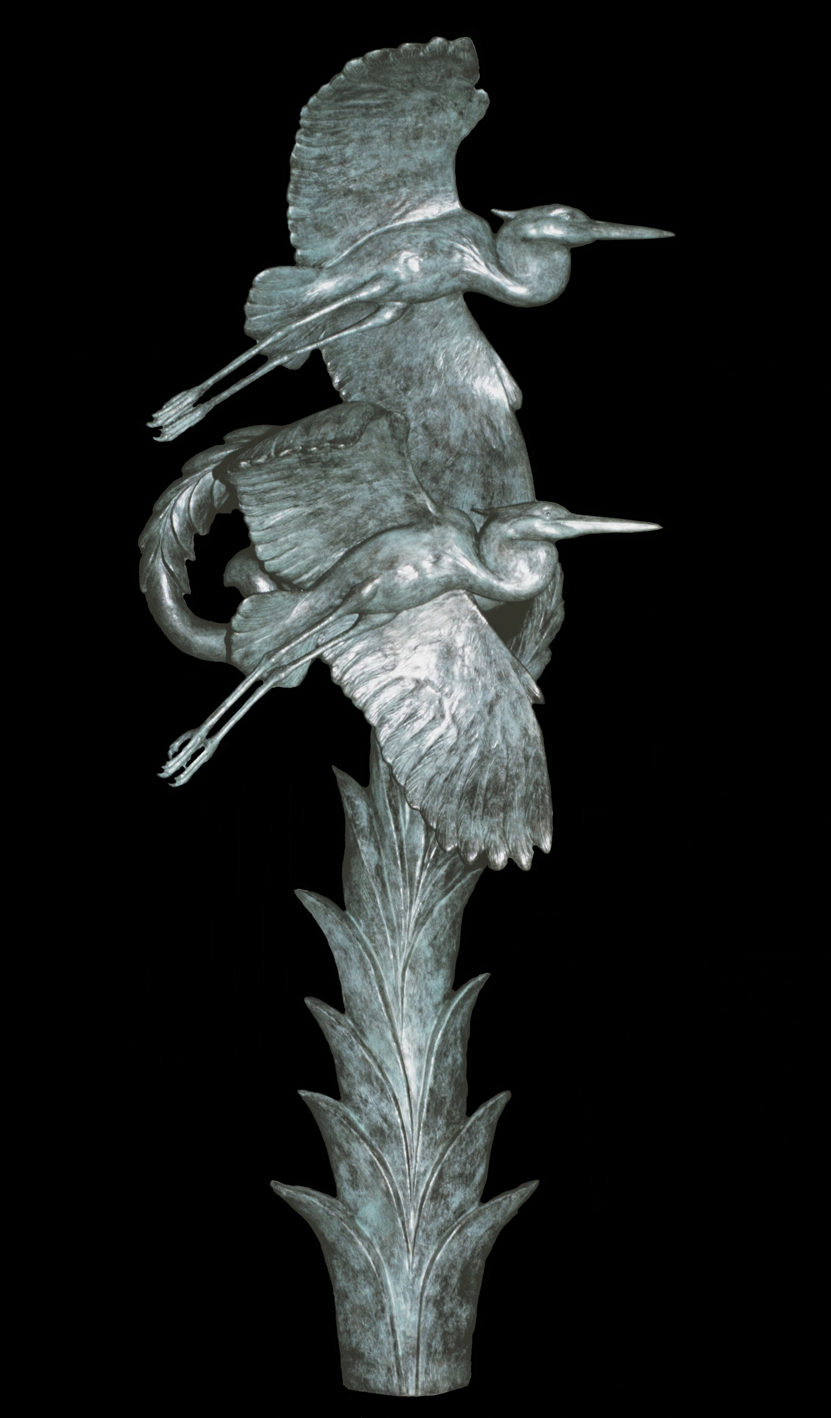 Great Blue Herons Lee H. Letts, Sculptor Bronze Height 9' (life size)